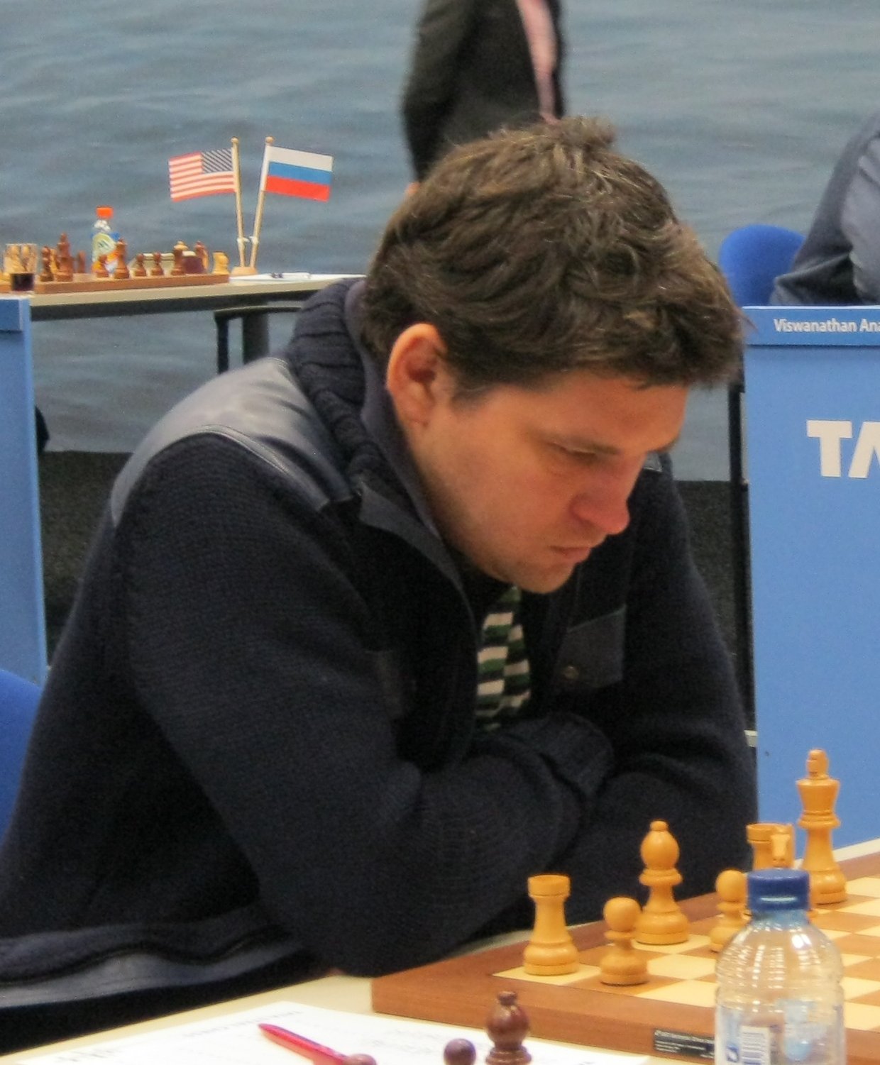 Vladislav Tkachiev, chess grandmaster from France